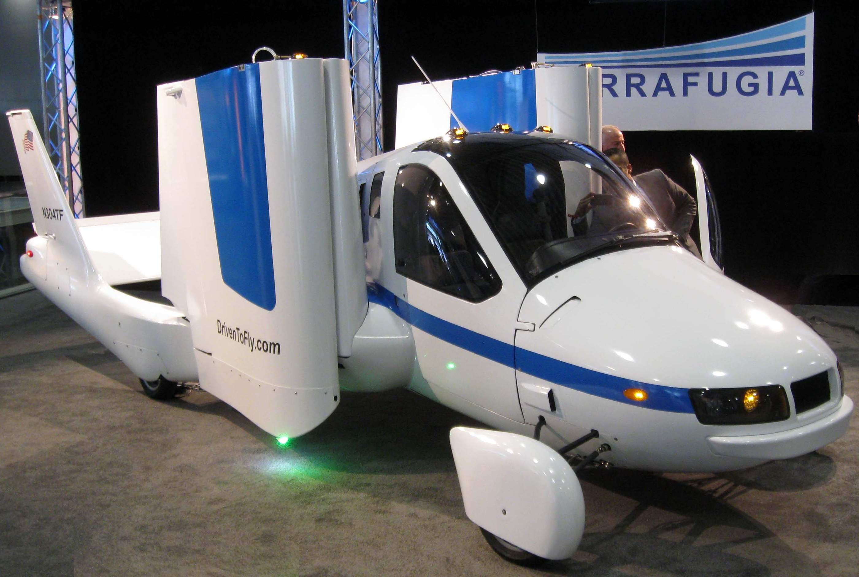 Terrafugia drivable airplane photographed at the 2012 New York International Auto Show.